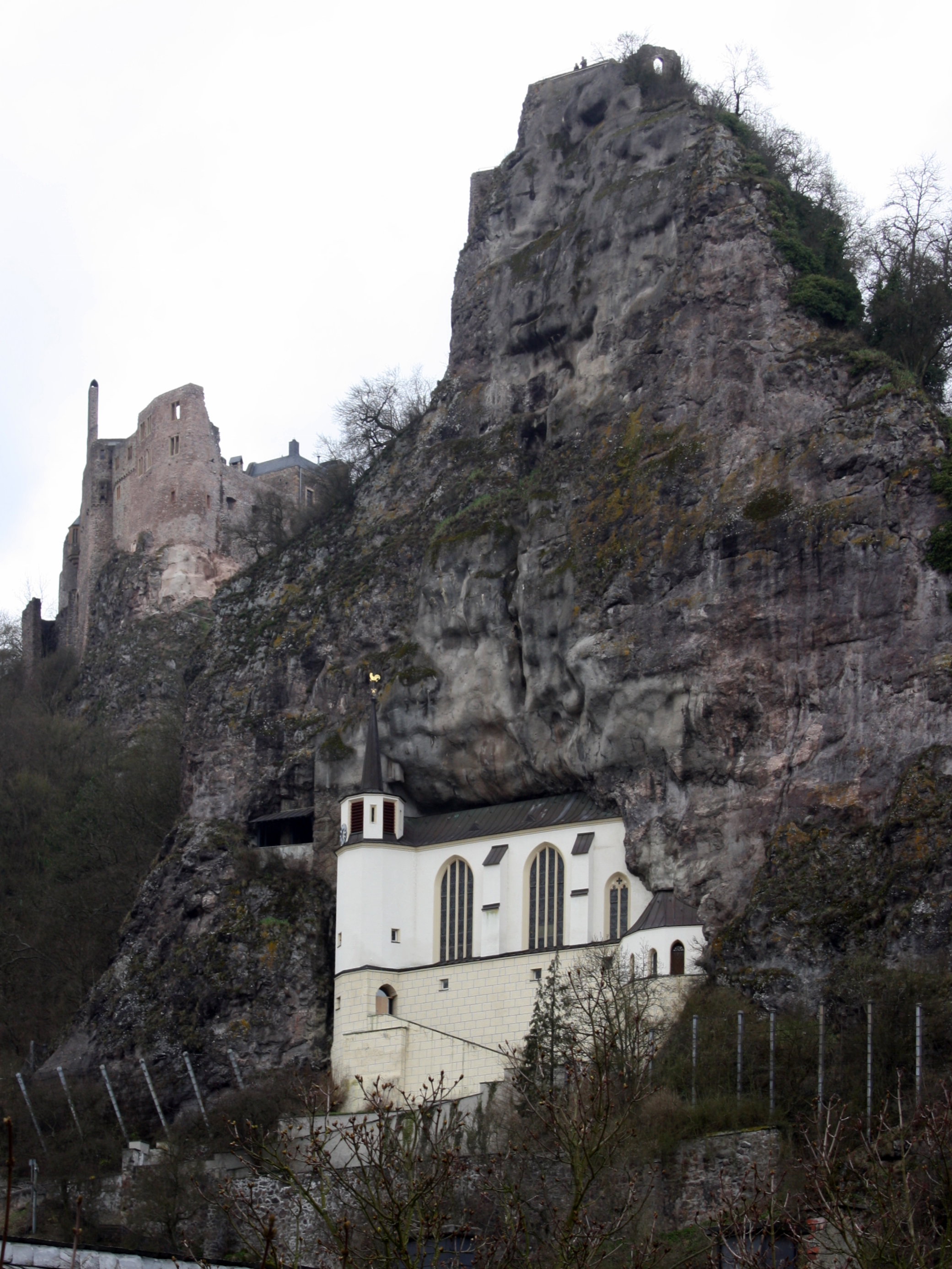 Idar-Oberstein, Germany. Rock church and Oberstein castle.